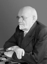 Krug K.A.